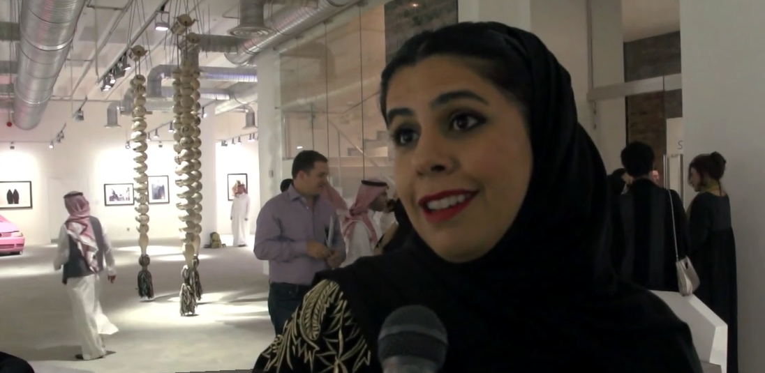 Manal Al Dowayan (Arabic: منال الضويان; born 1973) is a Saudi Arabian contemporary artist, best known for her installation piece Suspended Together from the Home Ground Exhibition at the Barjeel Art Foundation in 2011.